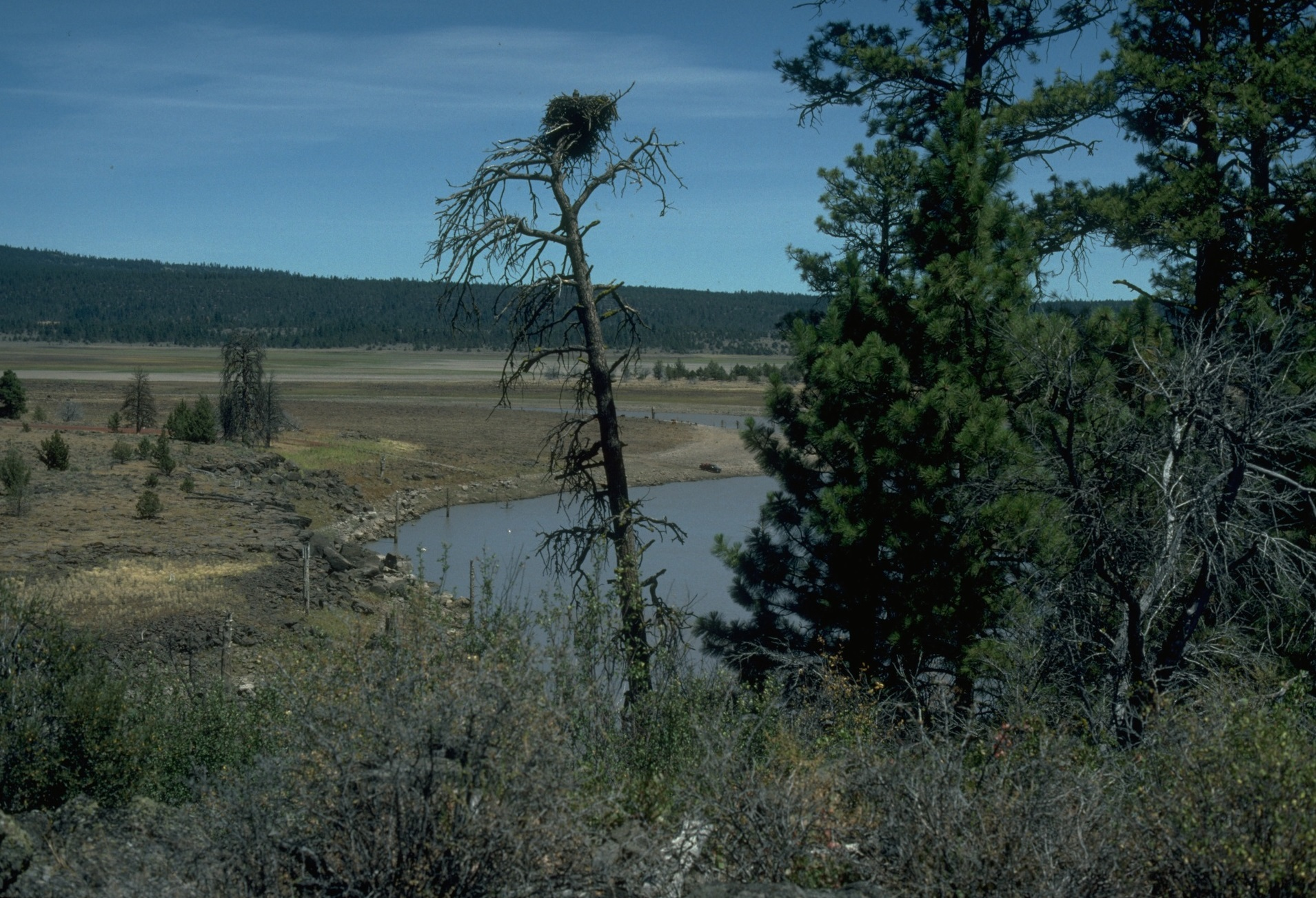 Osprey nest overlooking Gerber Reservoir in Klamath County, Oregon